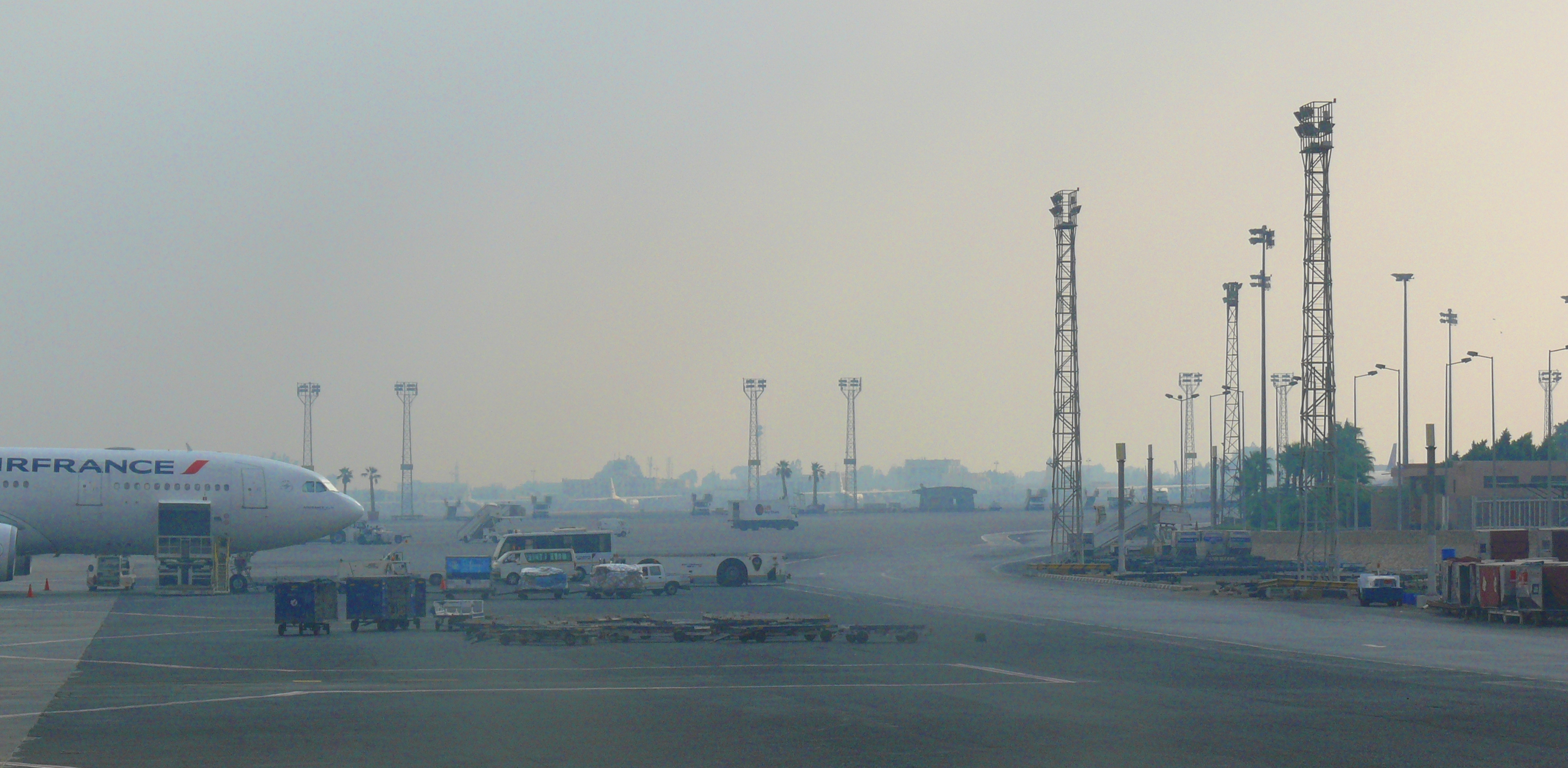 Cairo International Airport.